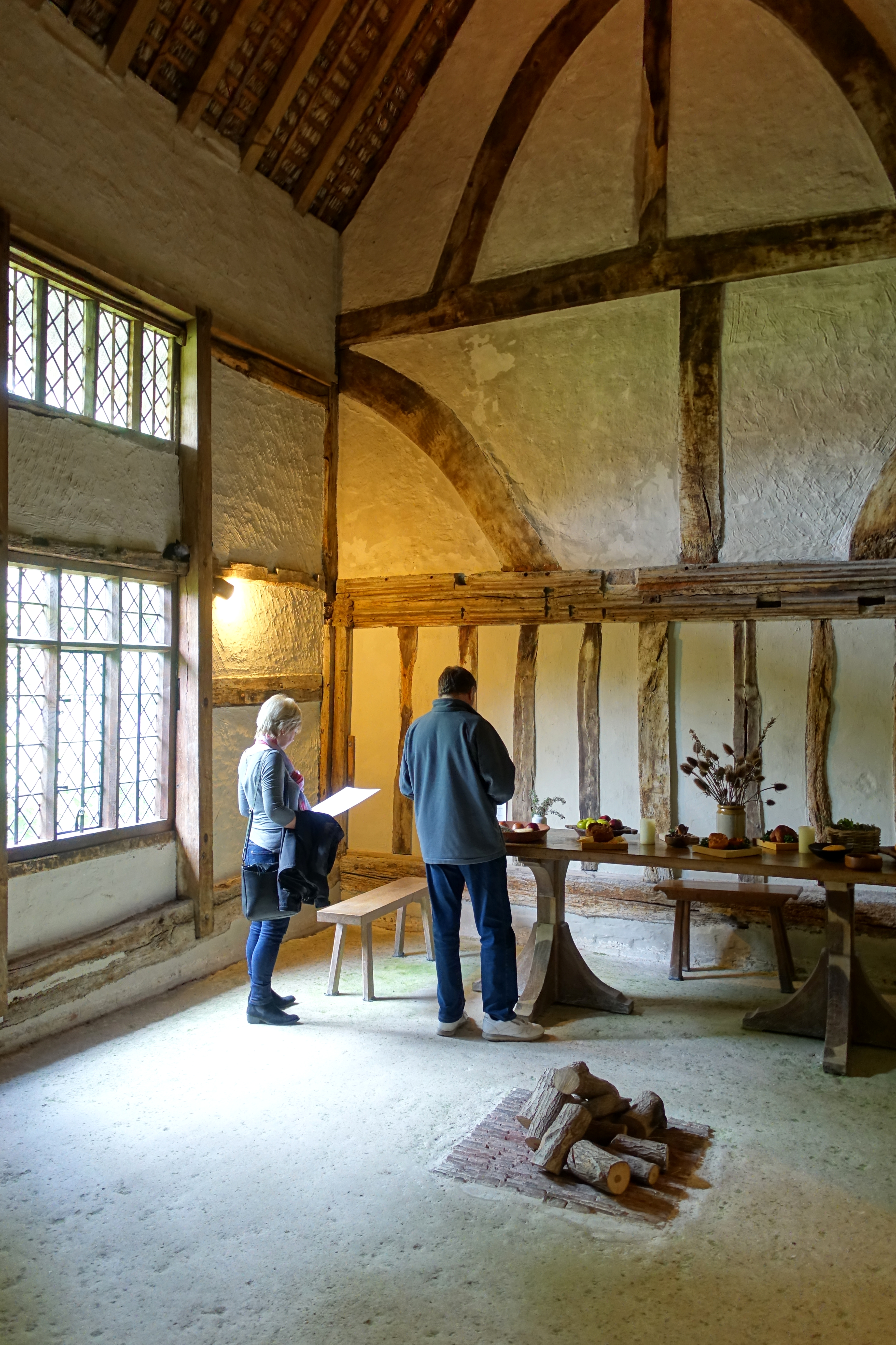 Alfriston Clergy House - Alfriston, East Sussex, England.